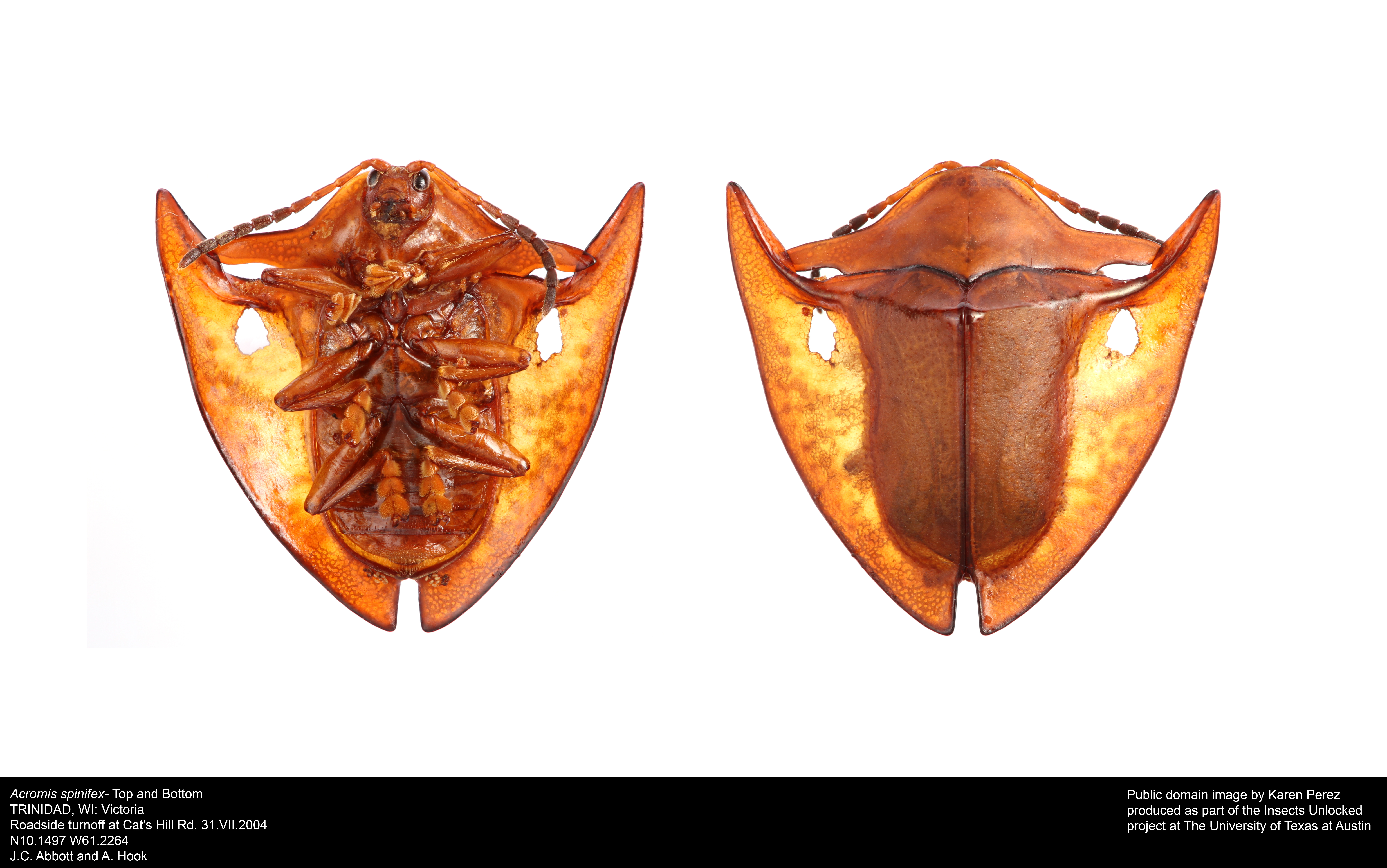 Public domain image by Karen Perez produced as part of the Insects Unlocked project at The University of Texas at Austin